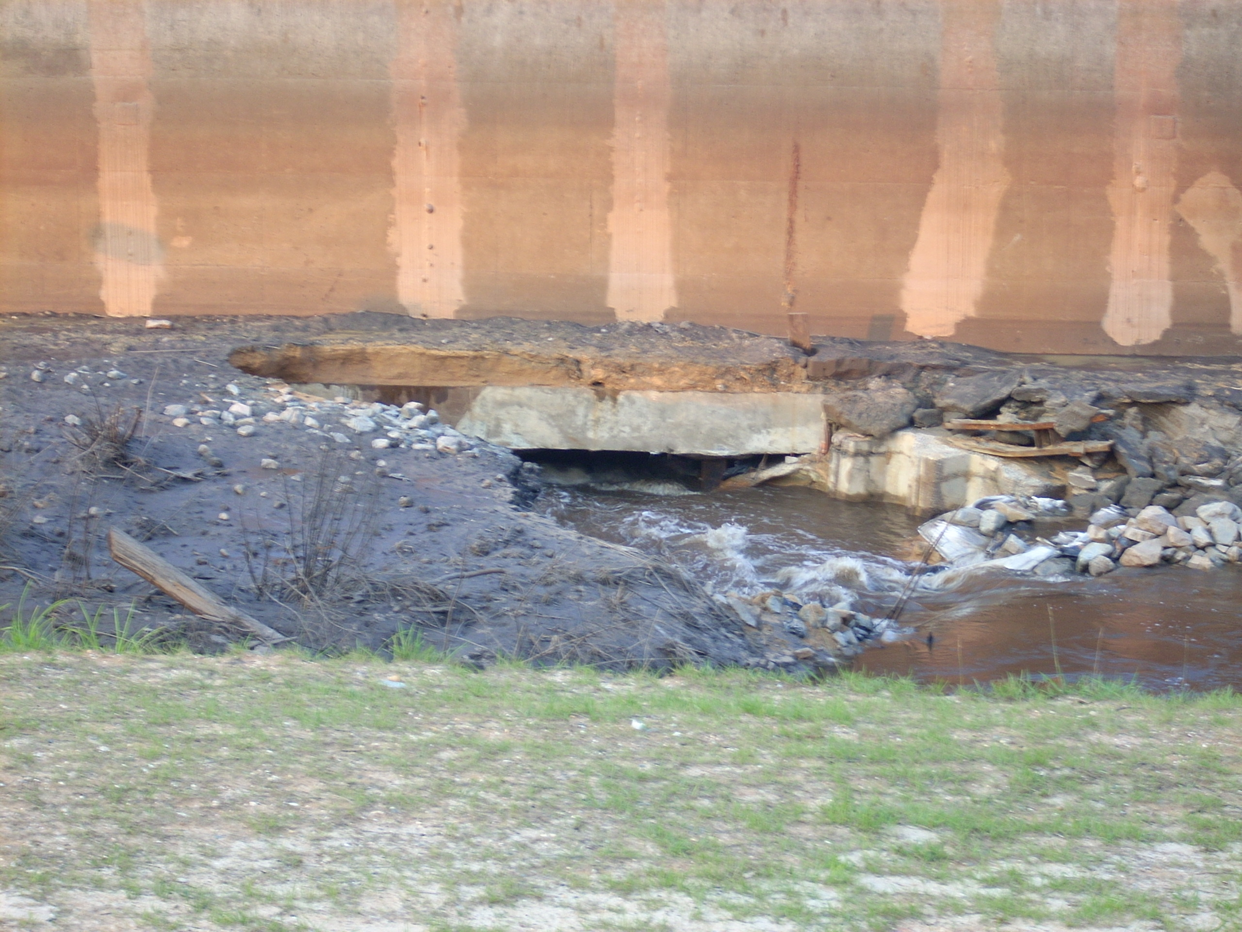 Water escaping through a sinkhole under the Hope Mills Dam.